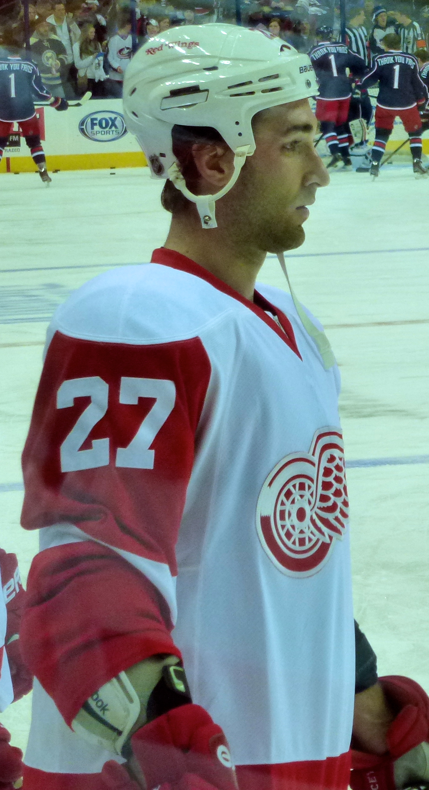 Kyle Quincey in warmups before an NHL regular season game against the Columbus Blue Jackets at Nationwide Arena.